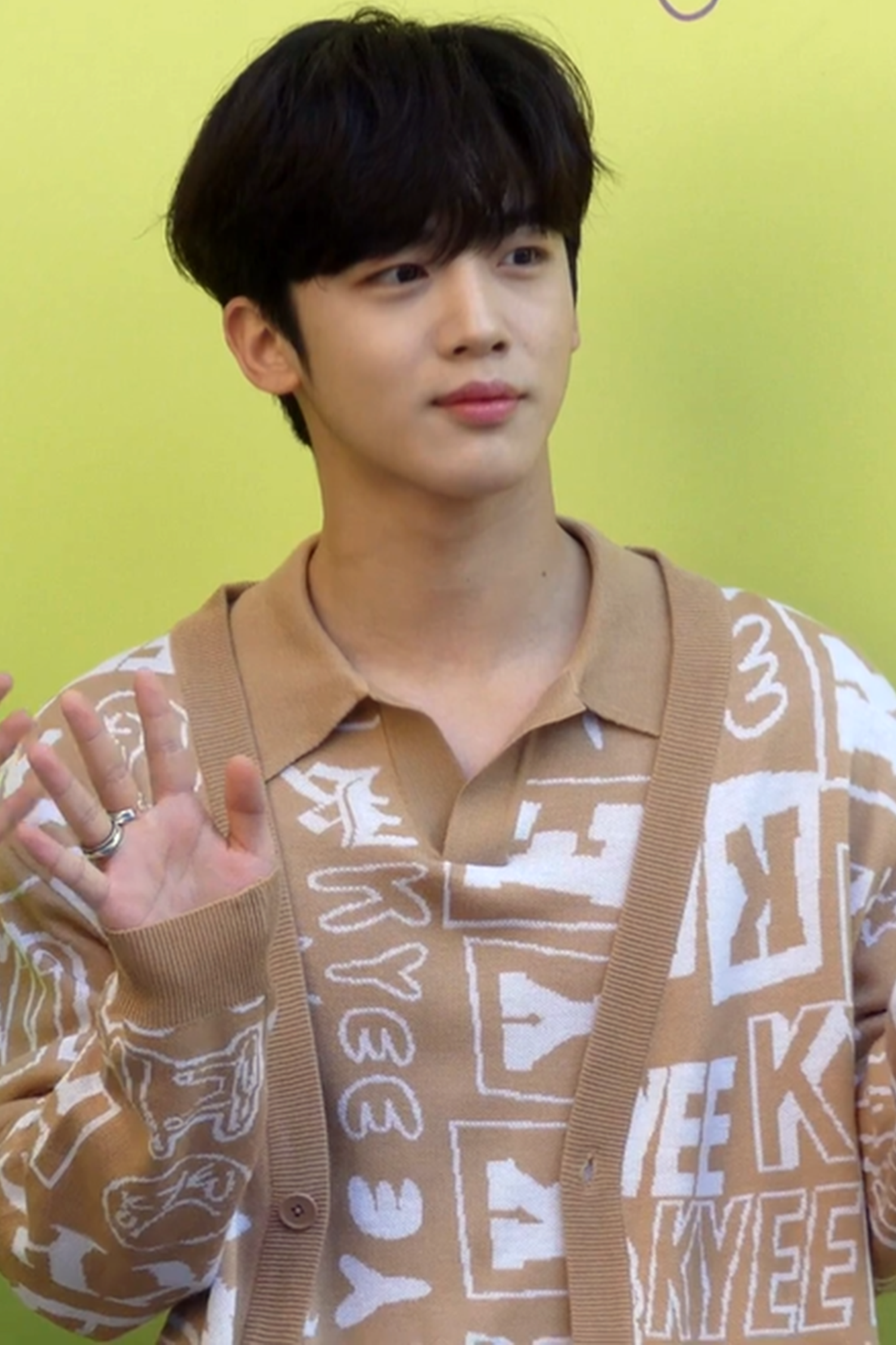 Kim Yo-han during the Seoul Fashion Week S/S 2020 on October 19, 2019.